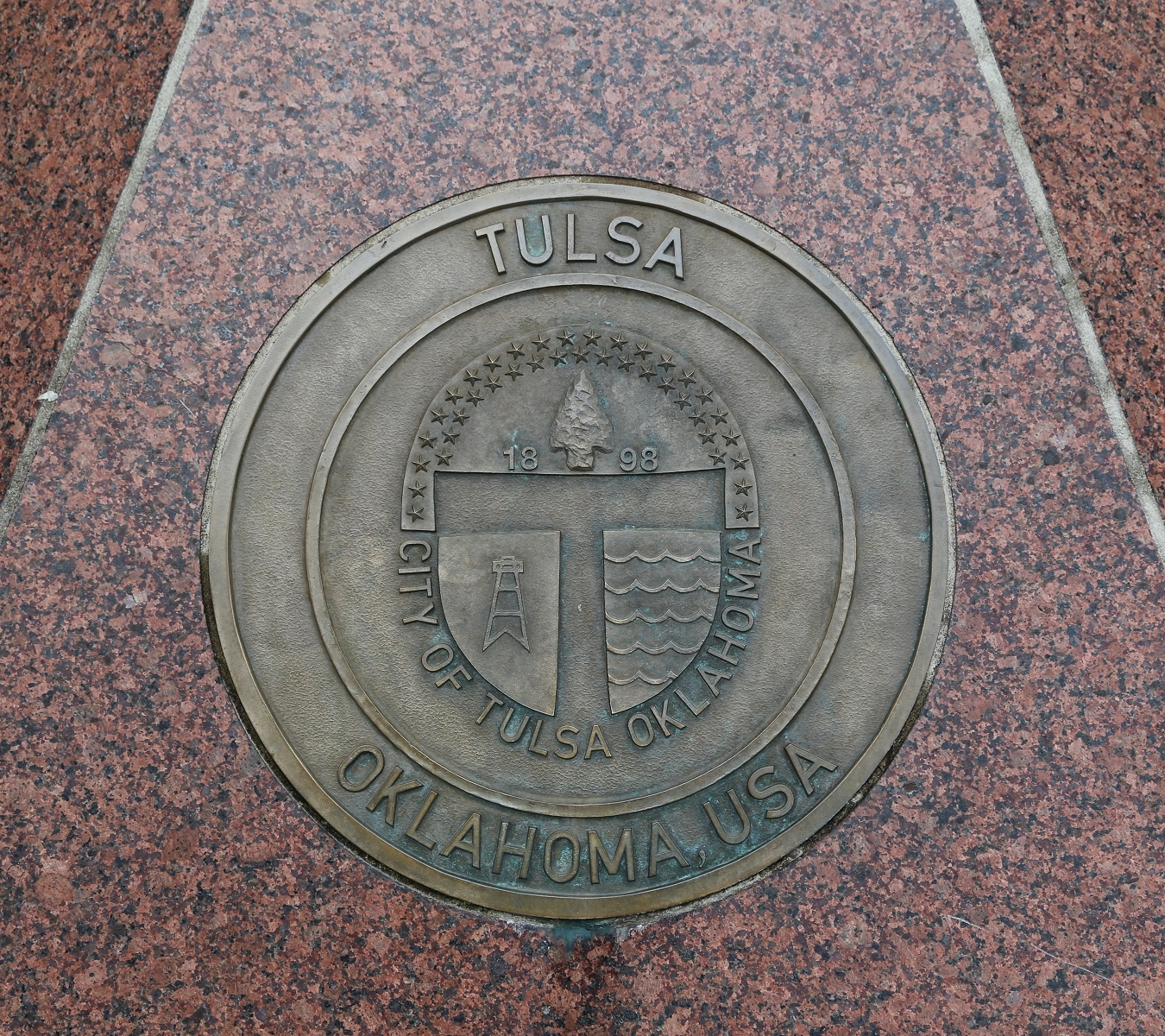 Tulsa is one of the twinned towns / sister cities of Celle in the North of Germany. Placed at a work of art with the further seals of her twinned towns. Inserted in polished granite of a multilateral similar to pyramid polygon (see survey photography)